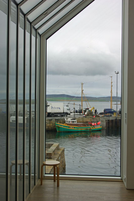 Pier Arts Centre, Stromness The Pier Arts Centre is the jewel in Stromness's cultural crown. Looking out from this contemporary building to the traditional fishing activities on the pier is a notable contrast.